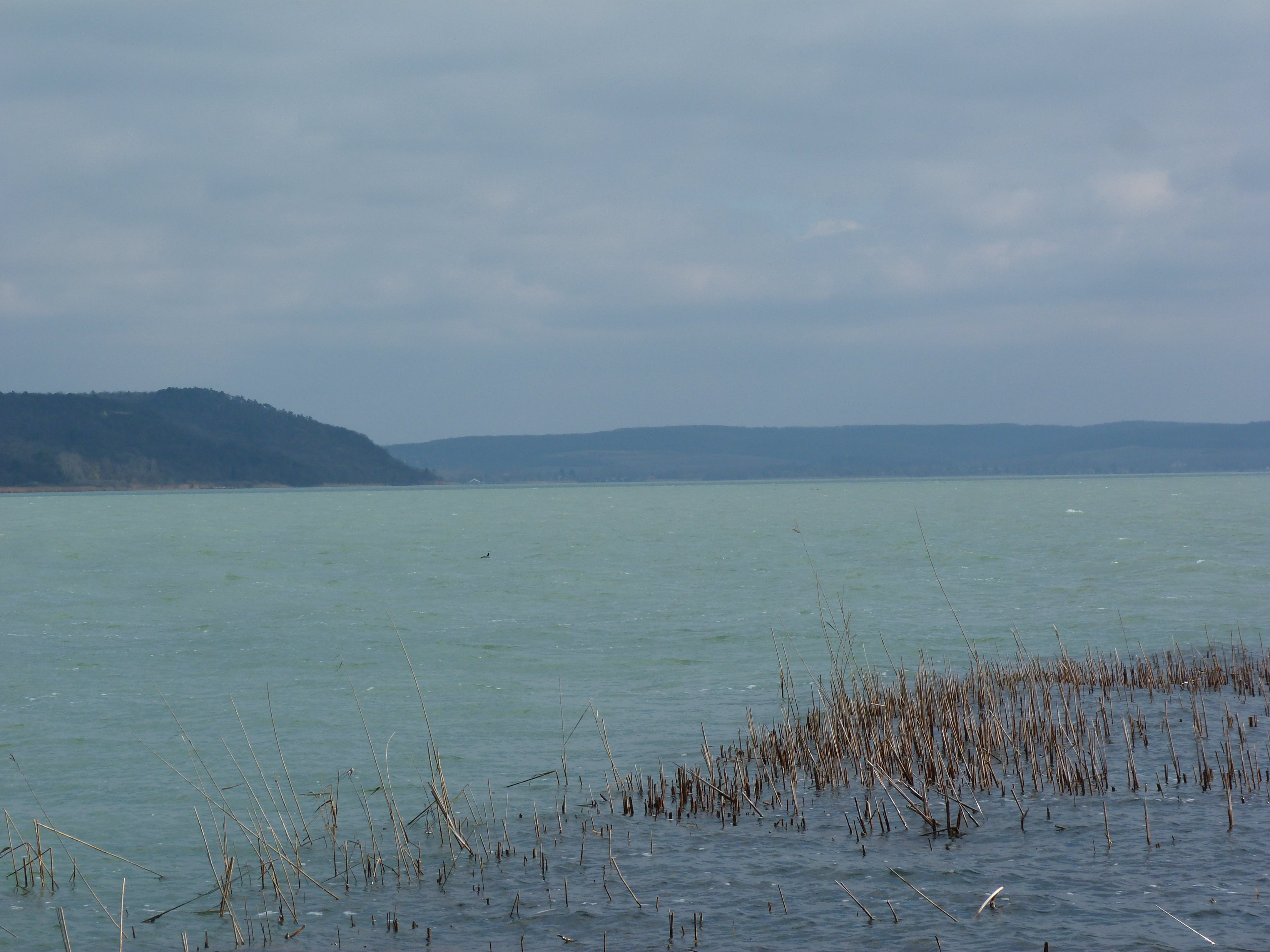 Taken on the 8th of March, 2016. Örvényes, Hungary. Lake Balaton.